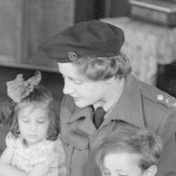 Stella Jane Reekie, a British nurse and child welfare specialist works with orphans.following the liberation of Bergen Belsen. June 1945